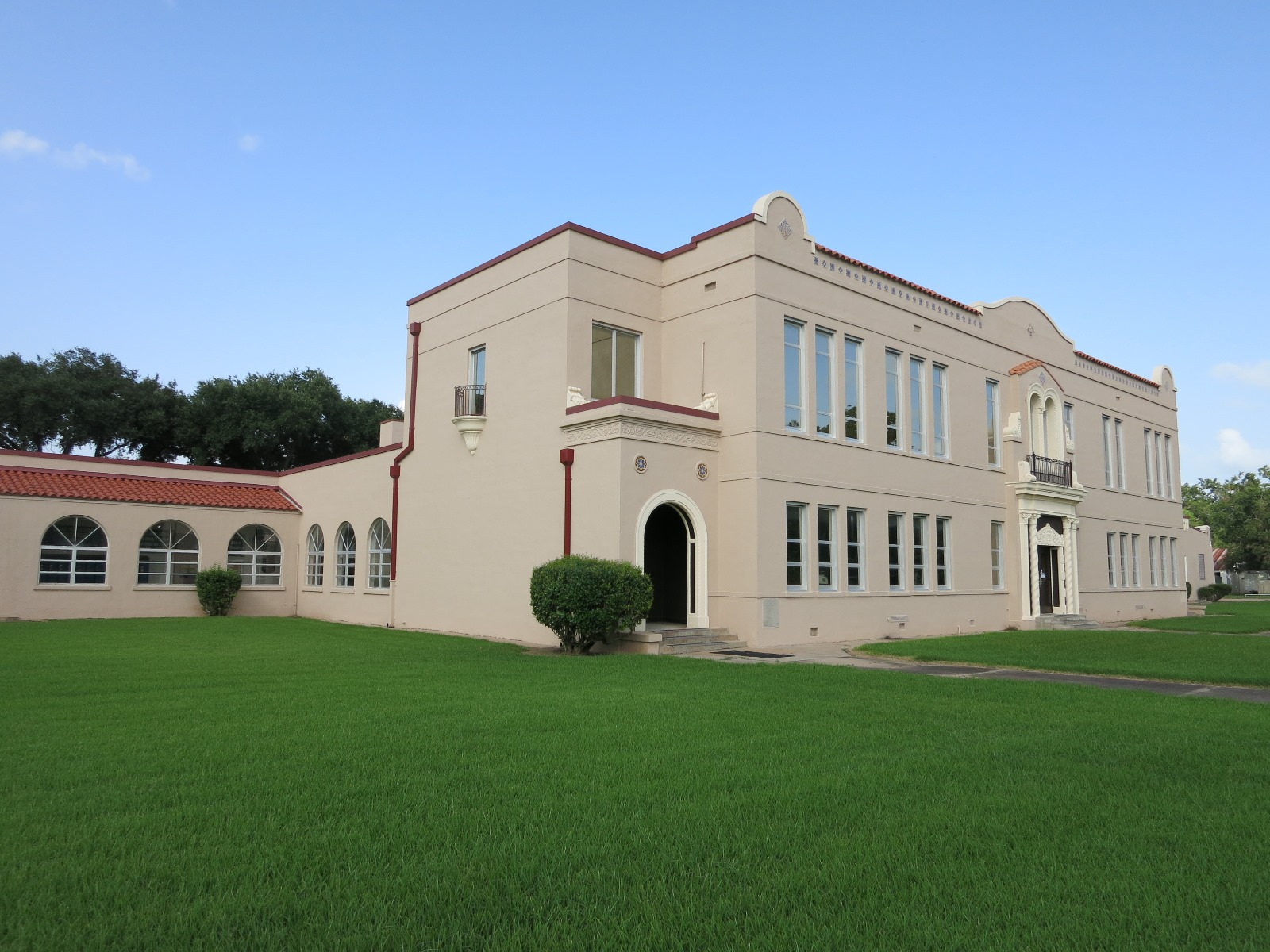 Photo shows Boling High School (Boling ISD) at Atlantic Avenue and Sinclair Street in Boling-Iago, Texas. View is toward the east.